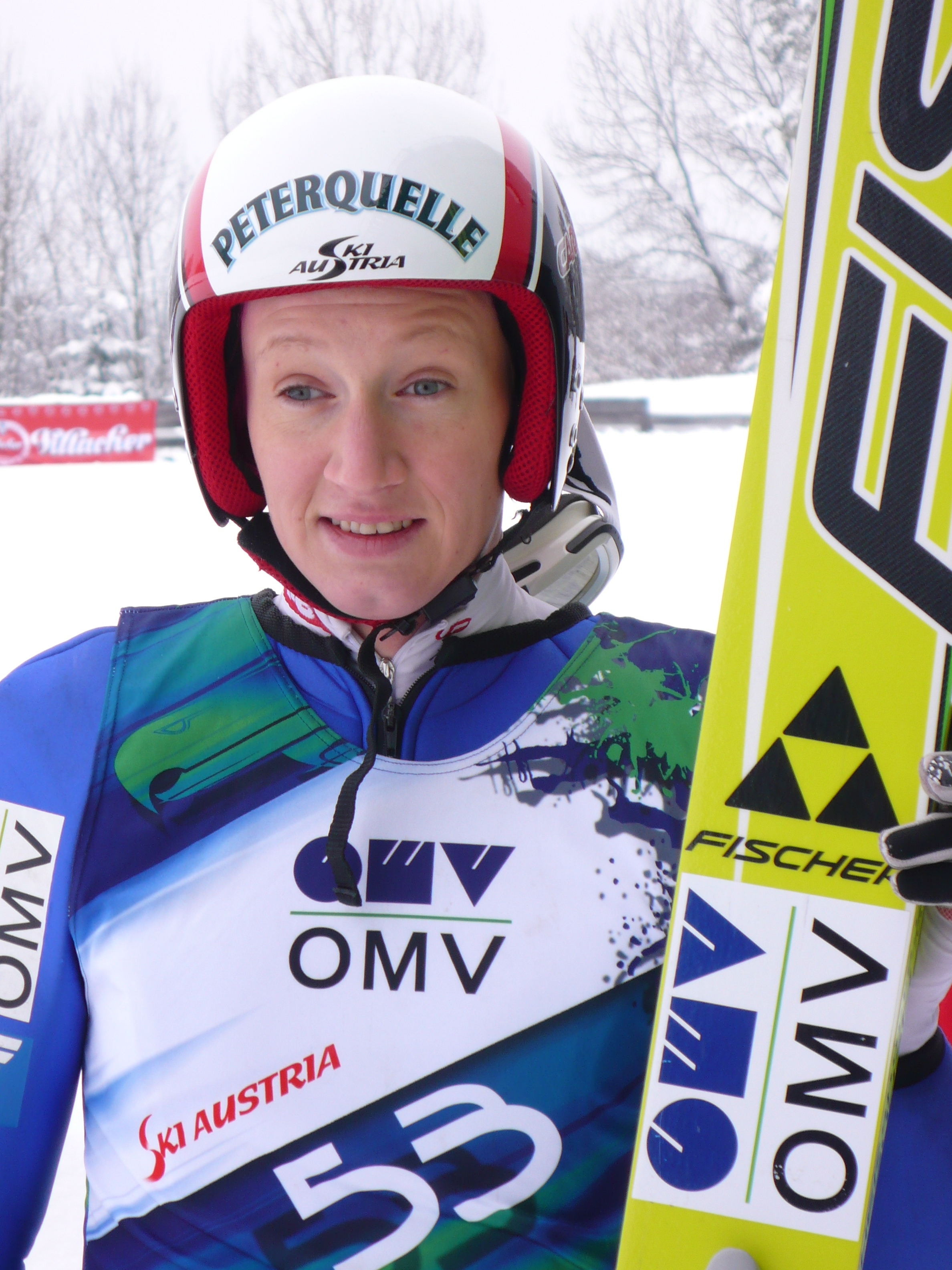 Daniela Iraschko, at the Ski jumping Continental Cup in Villach on the 2010-02-12.